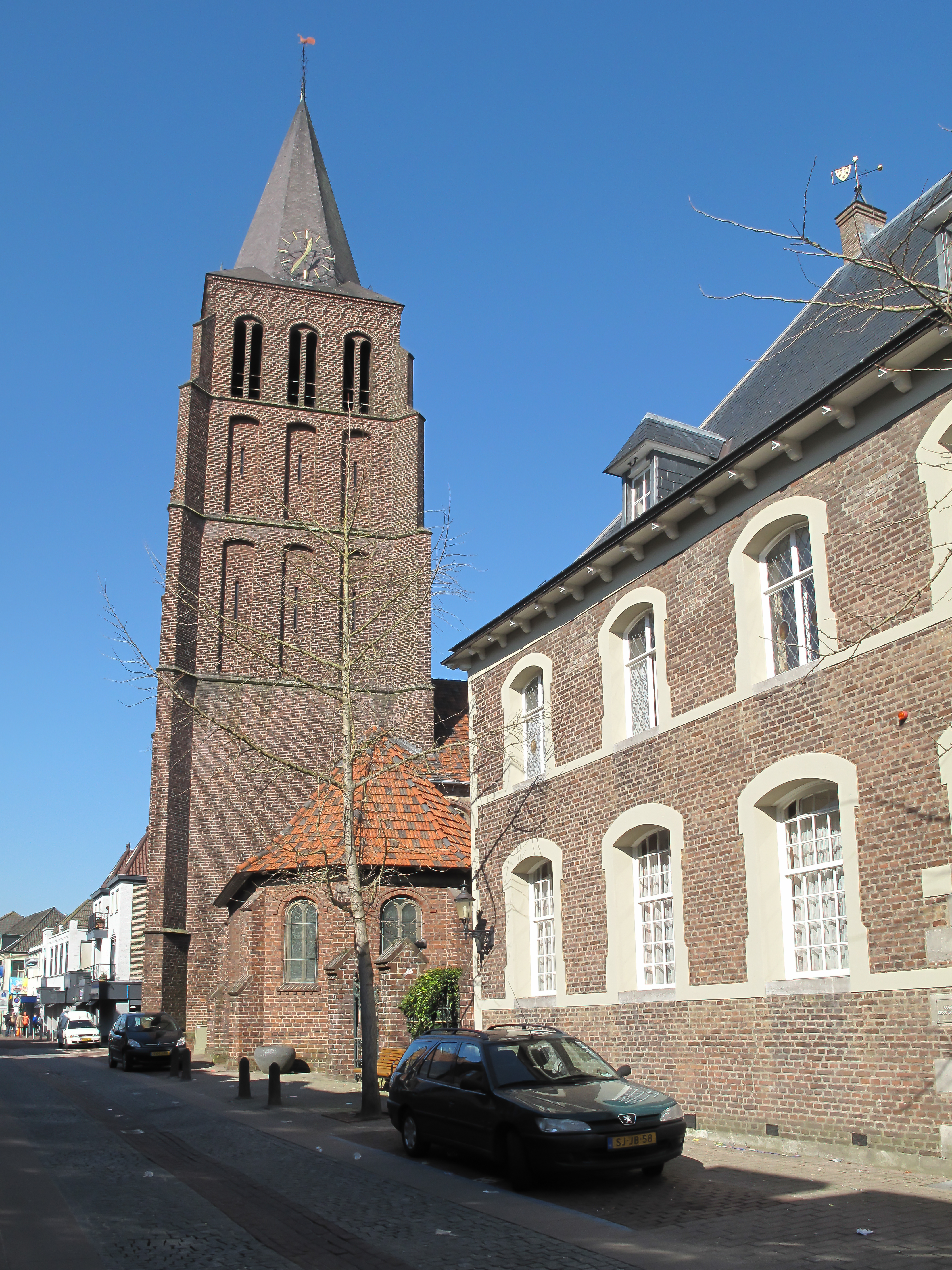 Boxmeer, church